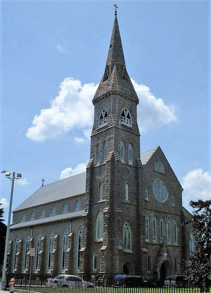 Cathedral of Saint Mary of the Assumption, Fall River, Massachusetts, as view from the northeast along Spring Street.